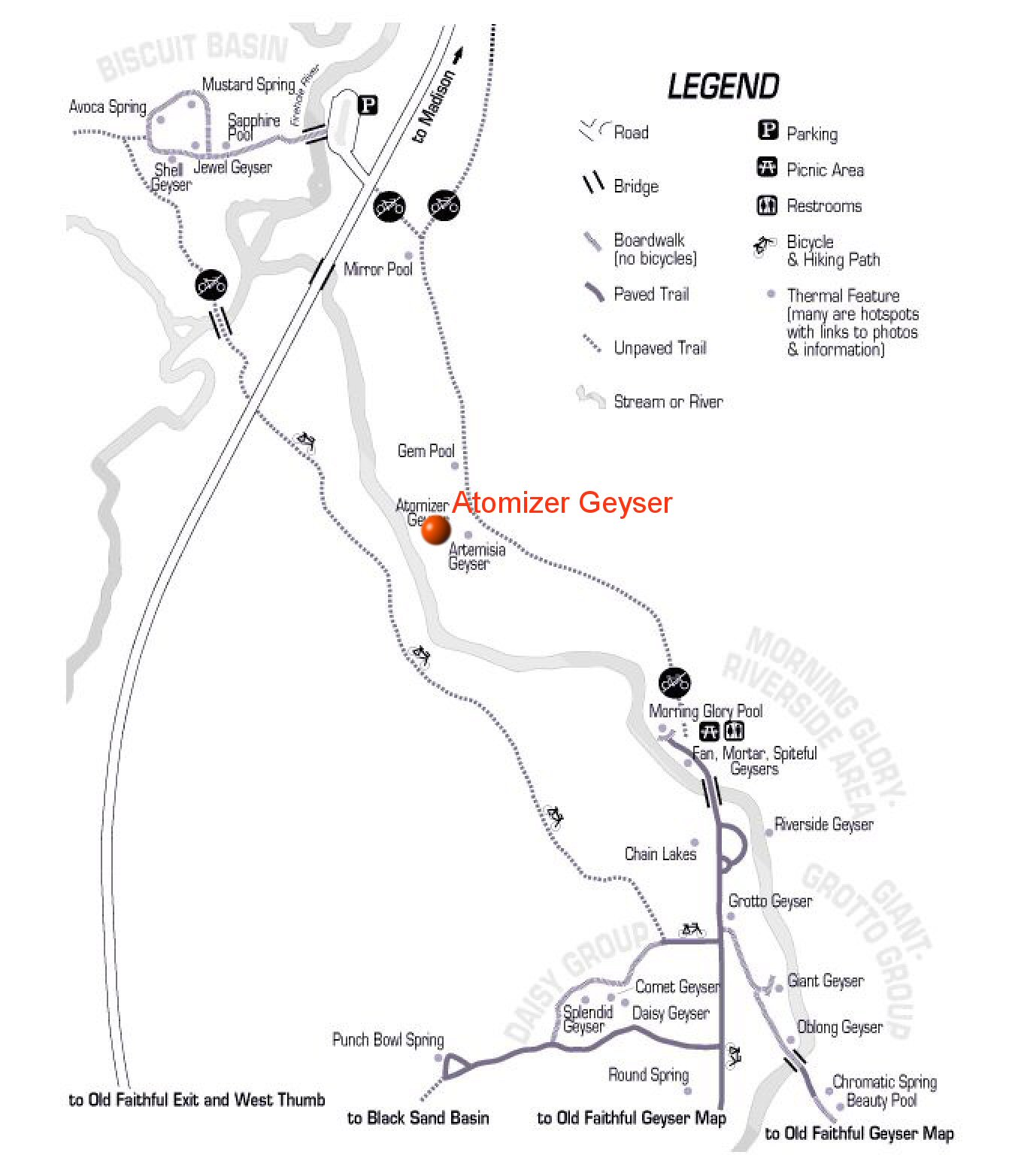 Map of northern section of Upper Geyser Basin, Yellowstone National Park with Atomizer Geyser annotated